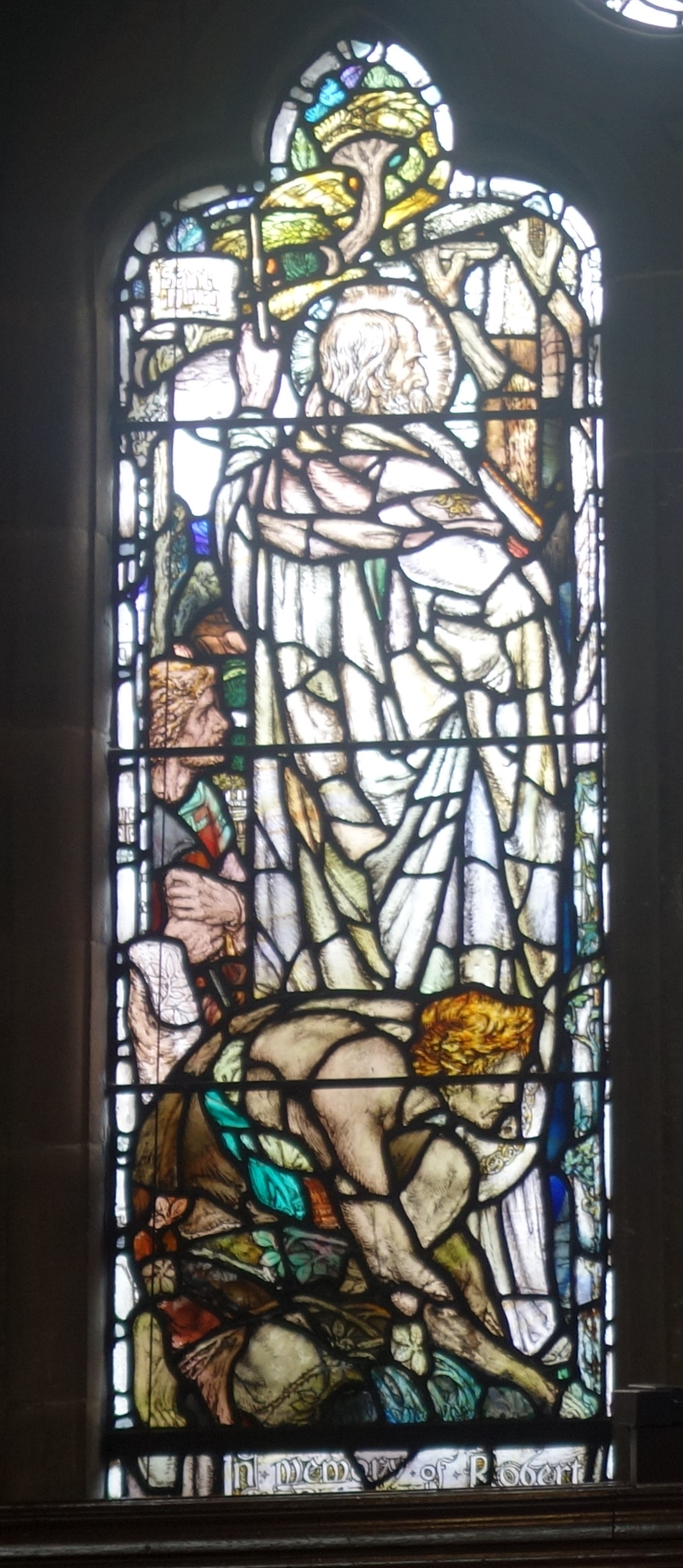 Stained glass windows in Bute Hall, University of Glasgow. Robert Story Memorial Window, by Douglas Strachan, placed in the Bute Hall of Glasgow University on 21 Oct. 1909. Saint Ninian